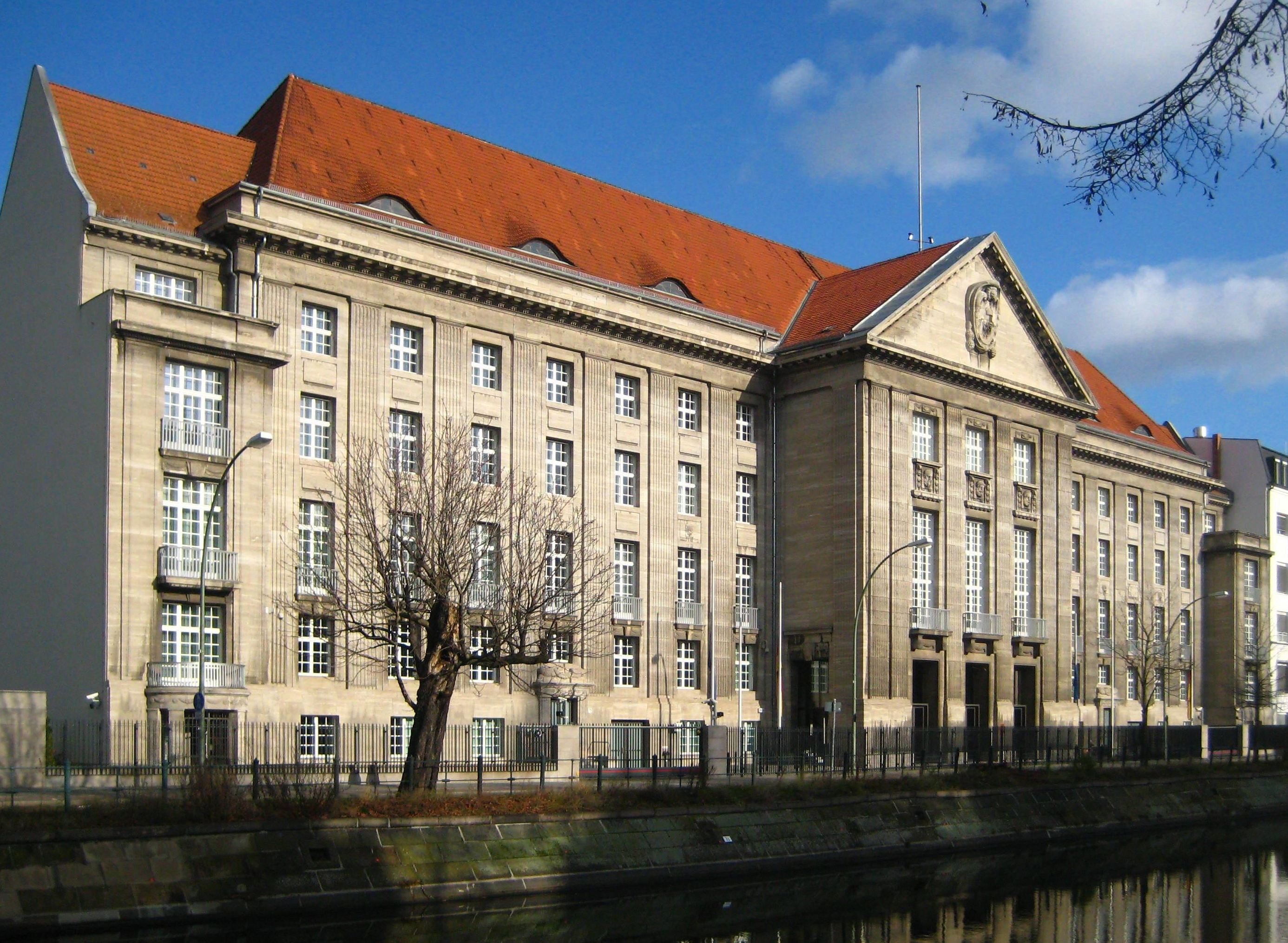 The Bendlerblock at Reichpietschufer No. 74/76 in Berlin-Tiergarten, built 1911 to 1914 as Reichsmarineamt (Reich Navy Office), now Berlin residence of the Bundesverteidigungsministerium (Federal Ministry of Defense). The Landwehrkanal can be seen in the foreground.